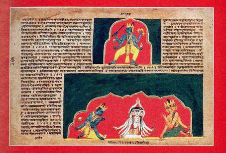 Citra Bhagavata illustration Satriya School, Assam, c. 1539 A.D.